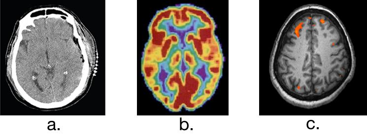 A composite of images resulting from brain scans using a.) CT, b.) PET, and c.) fMRI